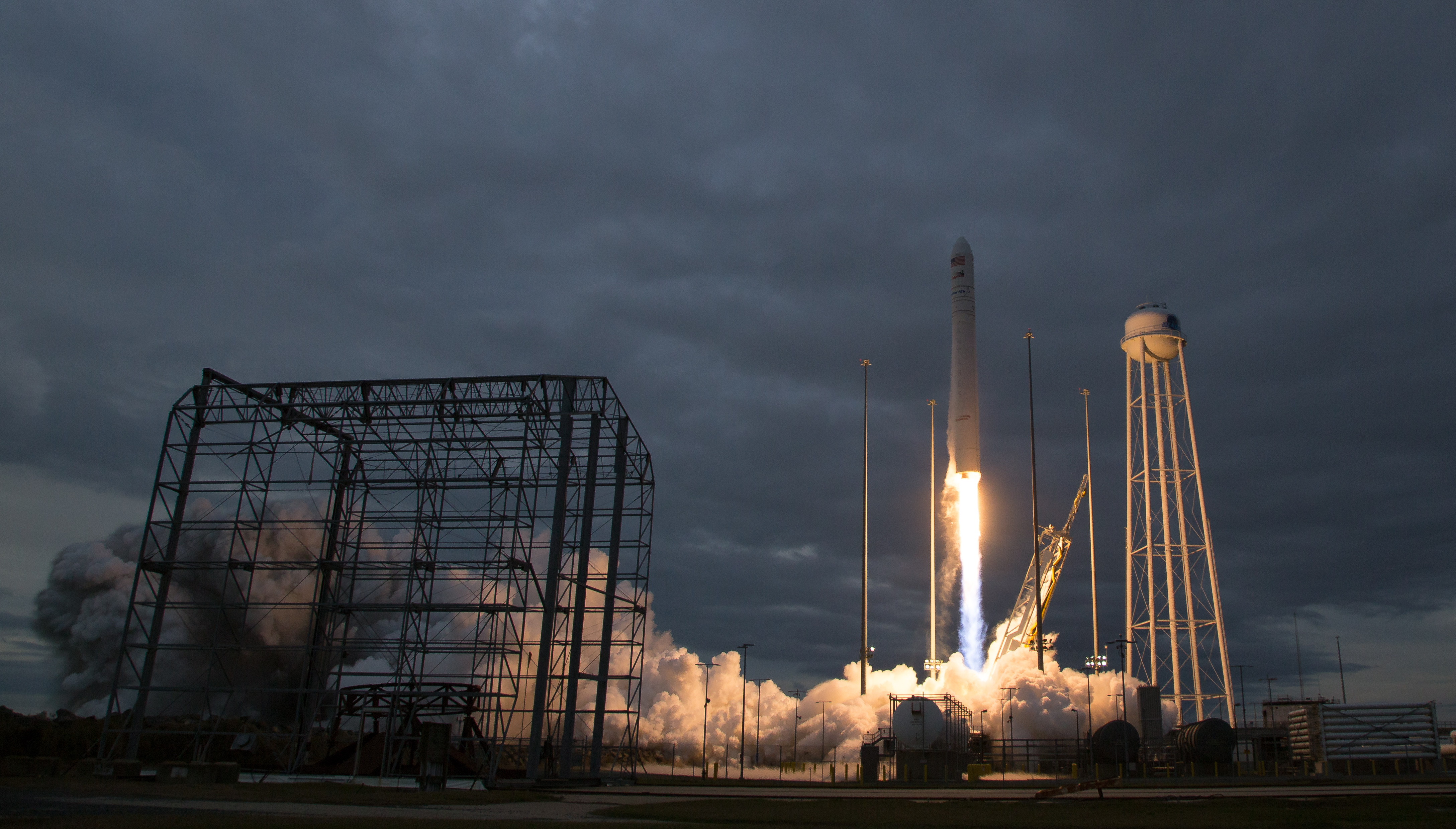 The Orbital ATK Antares rocket, with the Cygnus spacecraft onboard, launches from Pad-0A, Sunday, Nov. 12, 2017 at NASA's Wallops Flight Facility in Virginia. Orbital ATK’s eighth contracted cargo resupply mission with NASA to the International Space Station will deliver approximately 7,400 pounds of science and research, crew supplies and vehicle hardware to the orbital laboratory and its crew. Photo Credit: (NASA/Bill Ingalls)